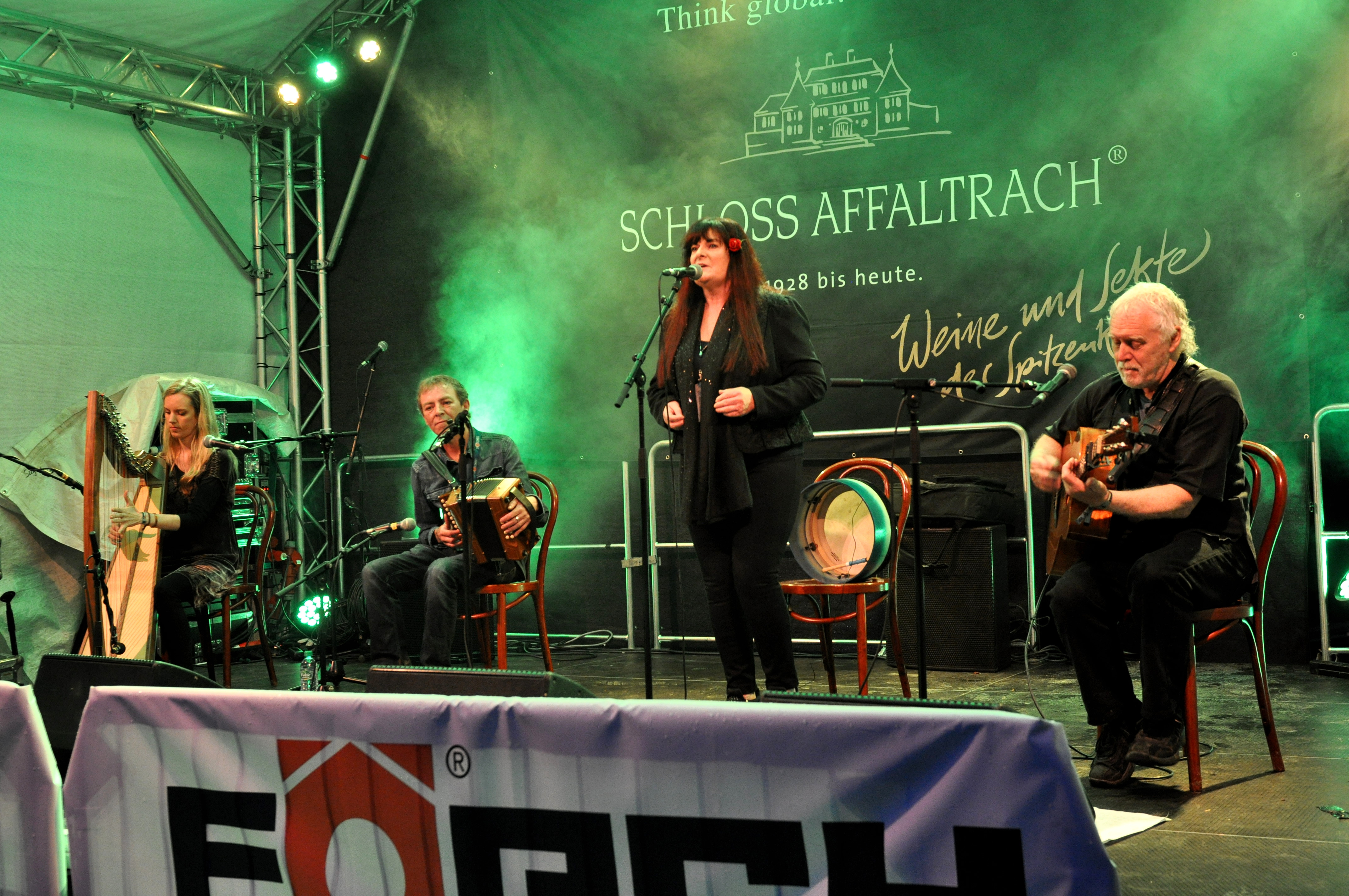 Geraldine MacGowan (IRL) appearance at the 2016 blacksheep festival at Bonfeld castle, Bad Rappenau, Baden-Wuerttemberg, Germany Festivalsommer This photo was created with the support of donations to Wikimedia Deutschland in the context of the CPB project "Festival Summer".